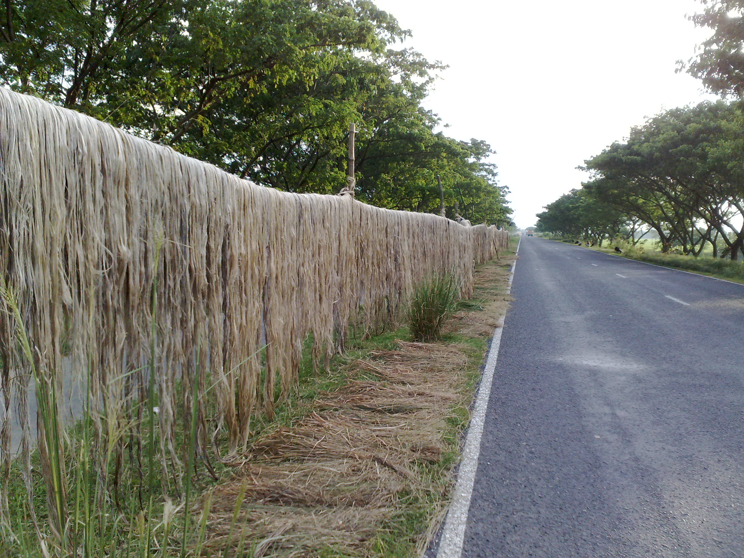 Jute is being dried besides a road